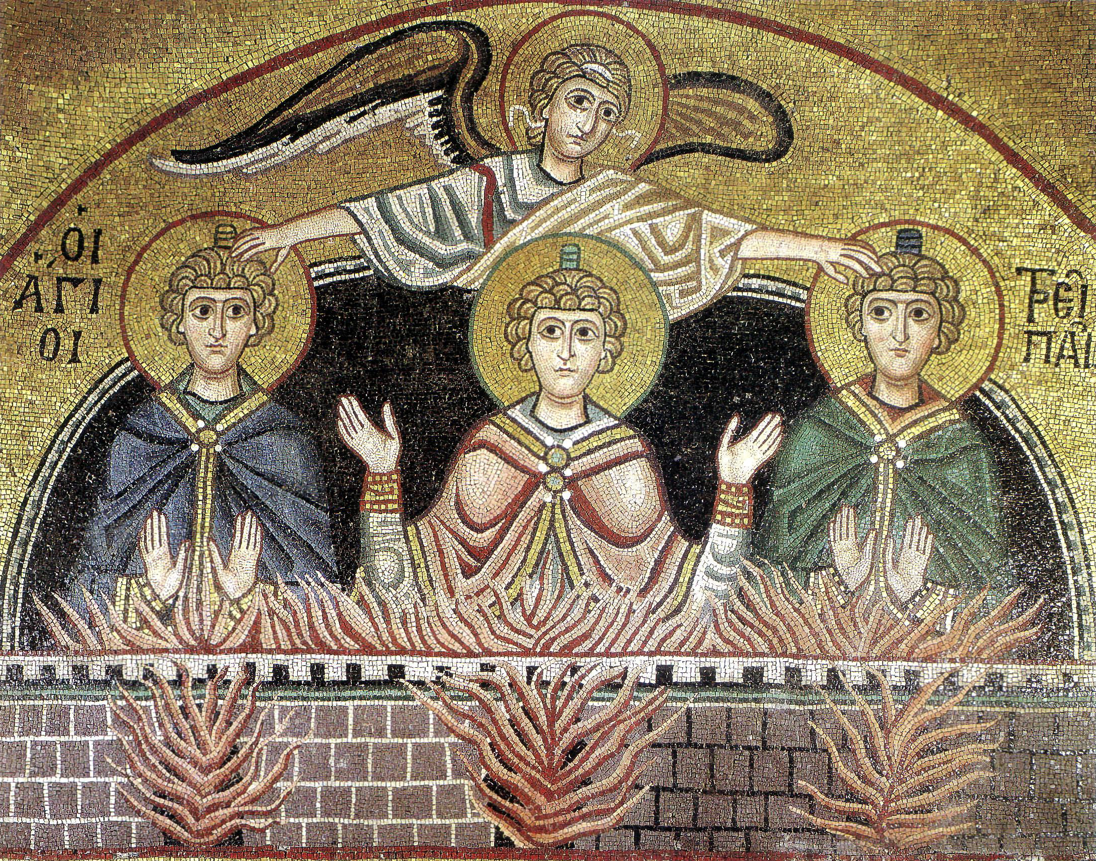 Fiery furnance